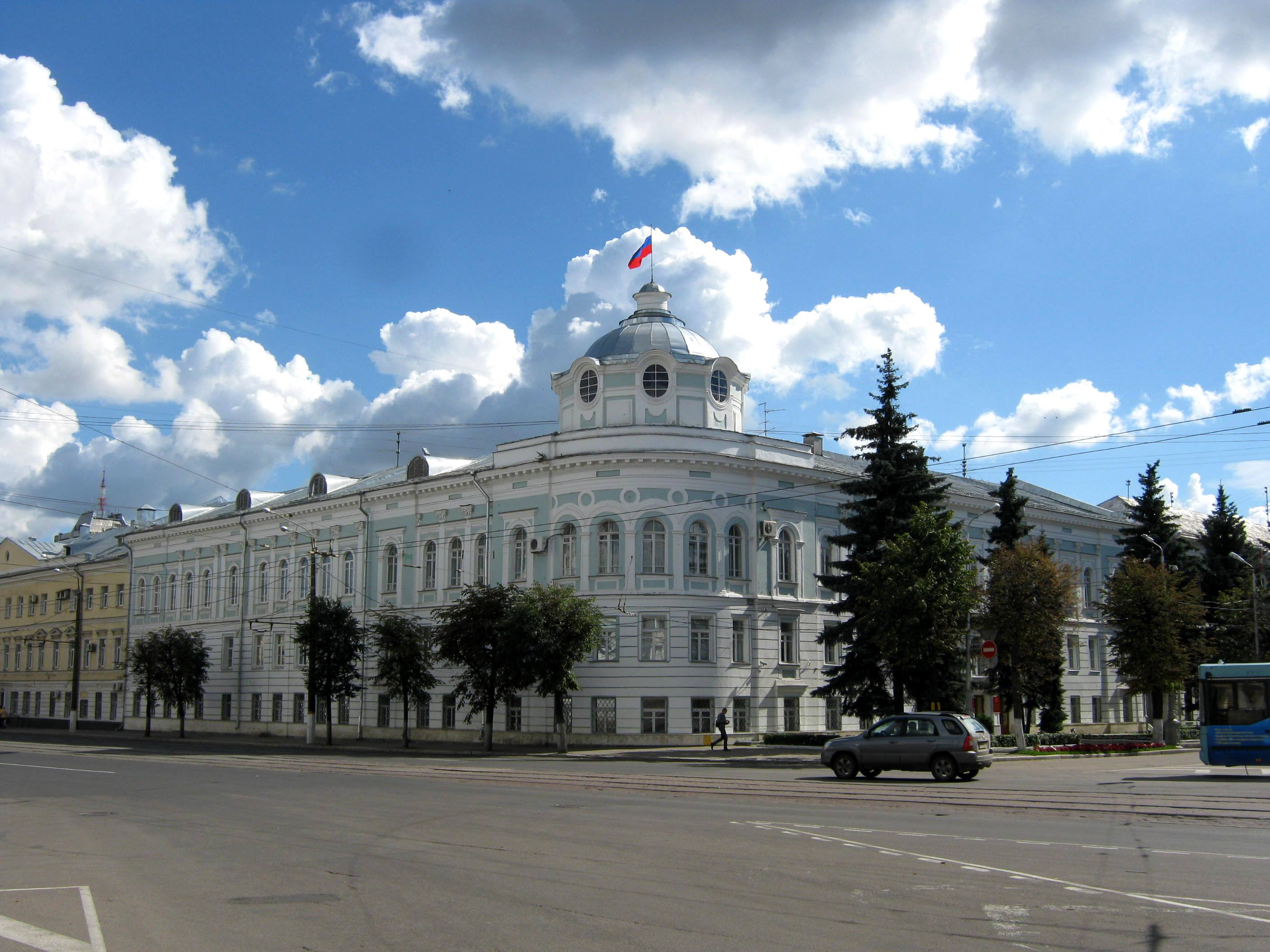 Резиденция Губернатора Тверской области